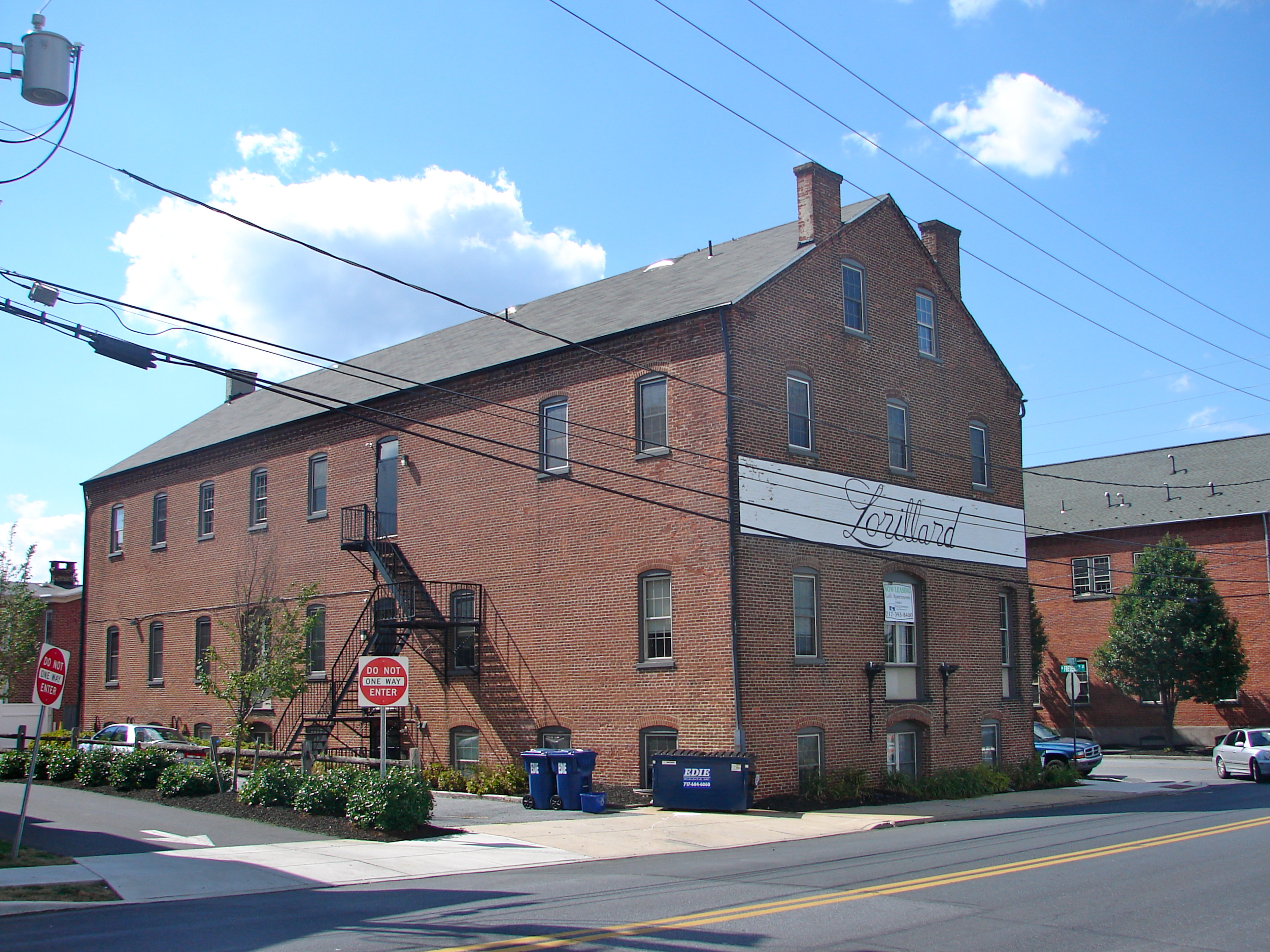 Lolliard building in the North Charlotte Street Historic District. On the NRHP since August 31, 1989. The historic district covers roughly North Charlotte Street from Harrisburg Pike to West James Street, about 10 large buildings similar to this one, in the Stadium District of Lancaster, Pennsylvania. Part of the NRHP multiple submission for tobacco industry buildings in Lancaster